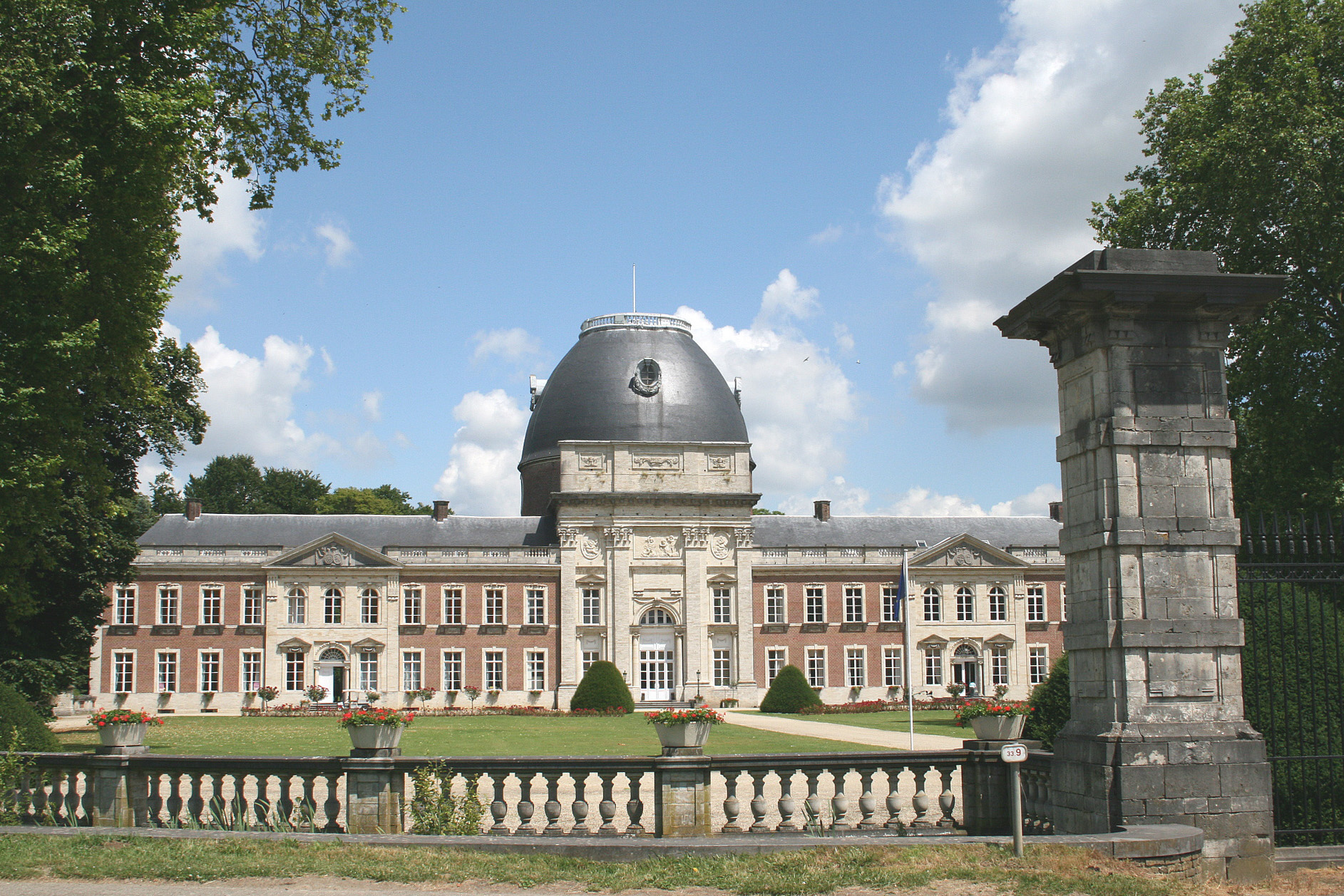 Opheylissem (Belgium), the two prelacy wings and the tower church of the previous abbey (1760-1780). Walon: Opélissème (Bèljike), lès deûs costès dol prélatûre èt l'toûr di l'ancyin.ne abéye (1760-1780).